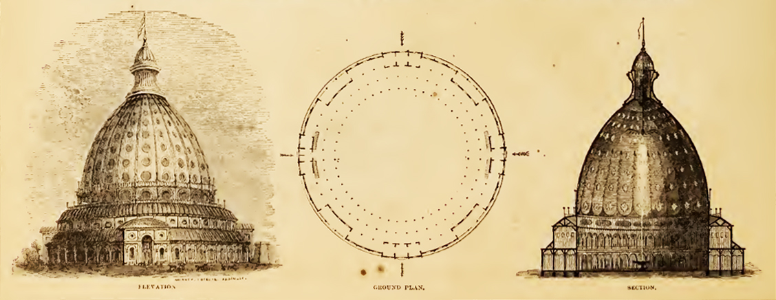 Andrew J. Downing's project for a building for the Exhibition of the Industry of All Nations in New York 1853–1854.